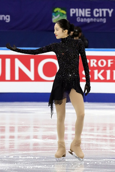 Zijun LI CHN – 7th Place